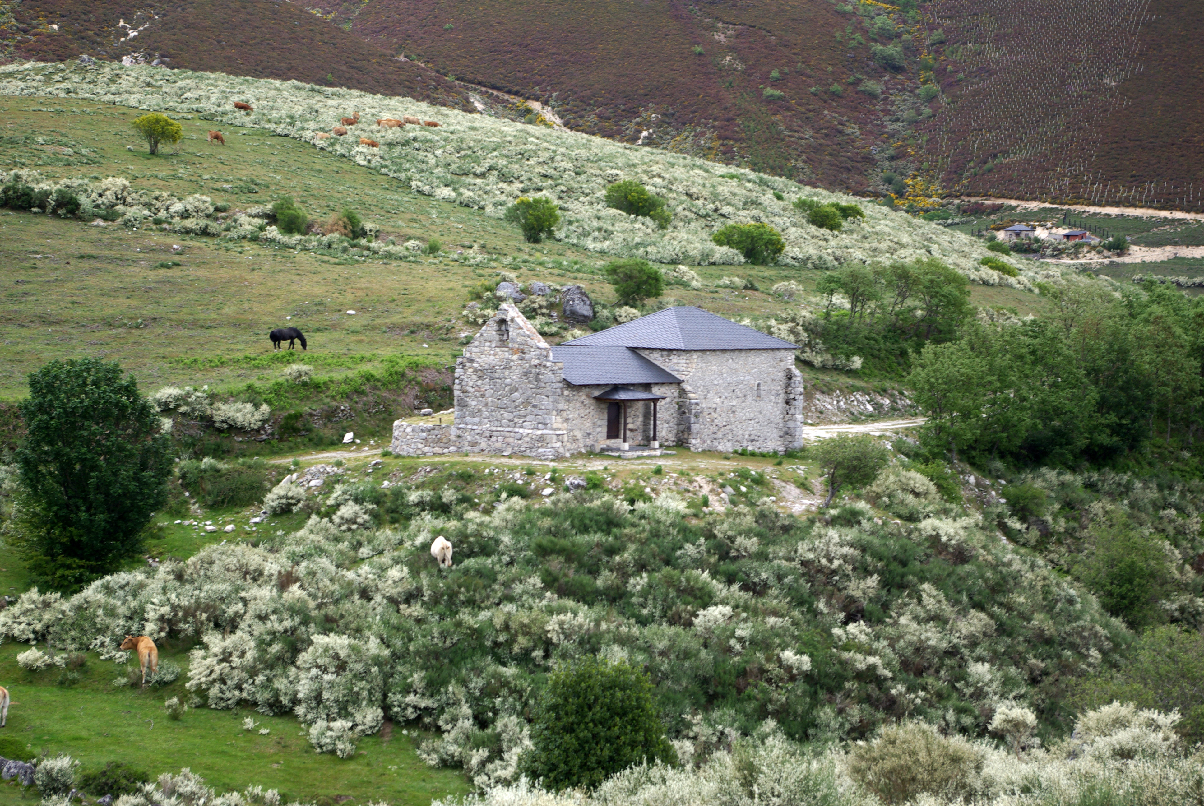 Campo del Agua hermitage, Villafranca del Bierzo (León, Spain)